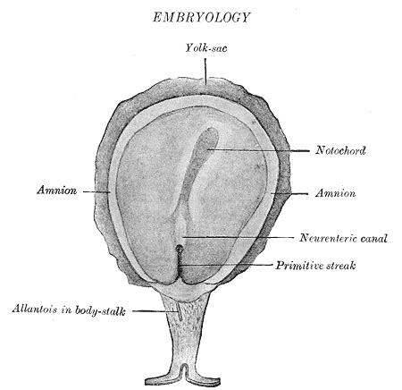 Surface view of embryo of Hylobates concolor. (After Selenka.) The amnion has been opened to expose the embryonic disk.